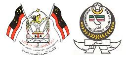 The original Pattani United Liberation Organisations flag. Independencemovement in southern Thailand.